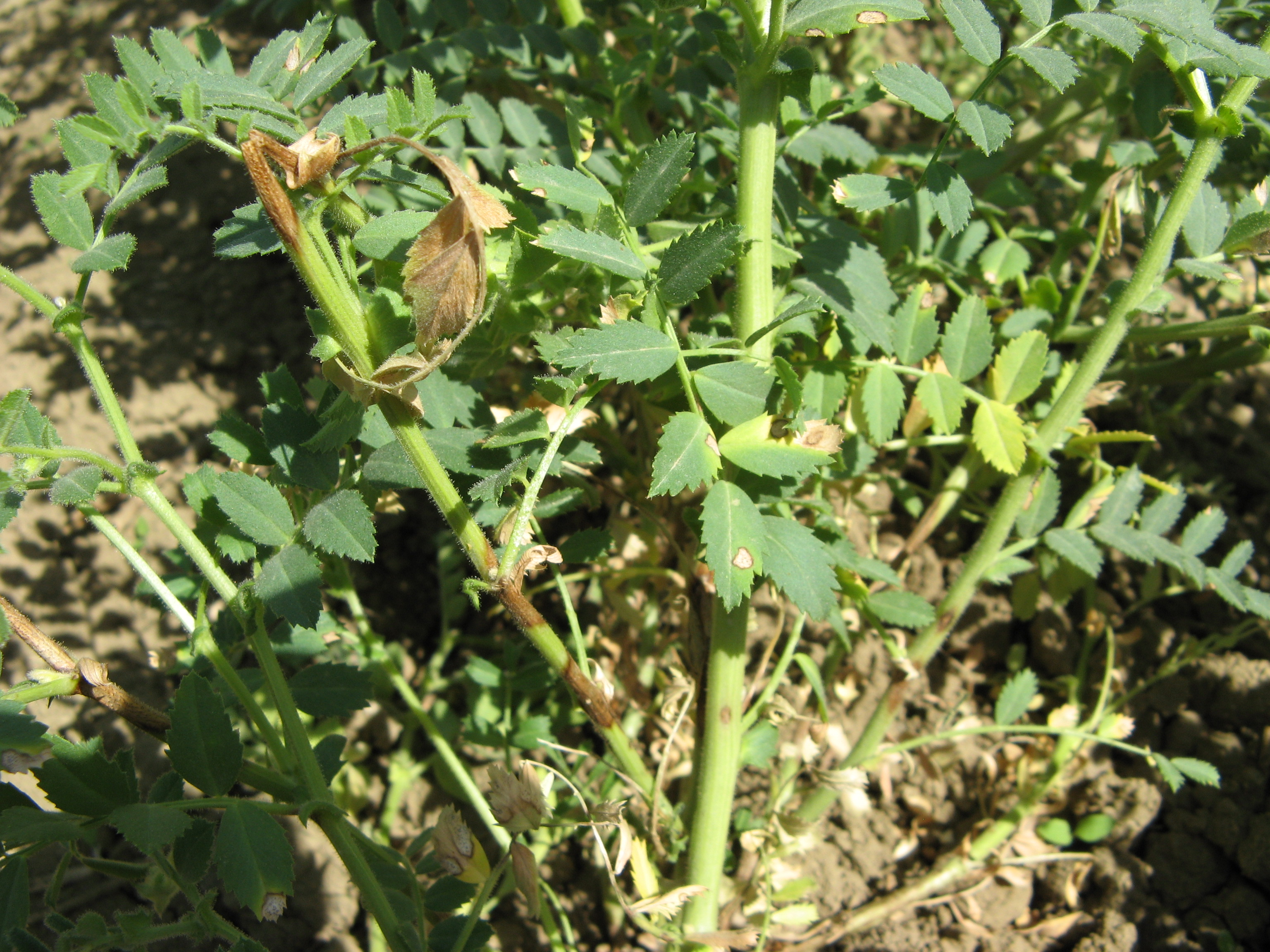 Ascochyta blight caused by the fungal pathogen Didymella rabiei/Ascochyta rabiei/Mycosphaerella rabiei is a devastating disease of chickpea. Our research has been searching for management solutions of this disease by identifying resistance sources, testing effective fungicides and investigating pathogenic mechanisms. The pathogen produces toxin solanapyrones and the toxins were thought to be important to disease development. In one study of ours recently published in Molecular Plant-Microbe Interactions, we generated mutants of Ascochyta that could not produce the toxin anymore. The mutants caused disease on chickpea just as well as the original isolate of the pathogen that was able to produce the toxins, demonstrating that the solanapyrone toxins are not required for pathogenicity. These toxins must play other important roles in the pathogen ecology.